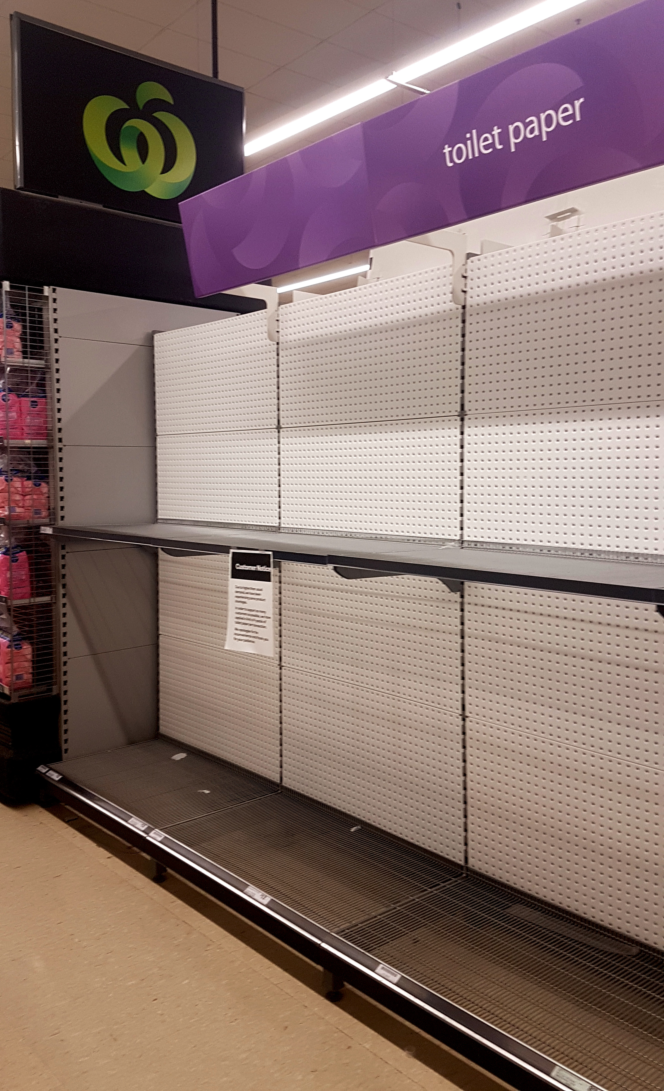 No Toilet Paper due to panic buying relating to the COVID-19 outbreak. Image taken in Adelaide's Northern Suburbs, March 2020.